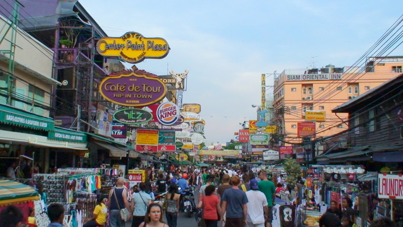 Photo of the signage on Khao San Road.